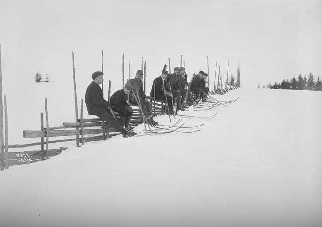 Skiers from Skiklubben Ull in Oslo, Norway